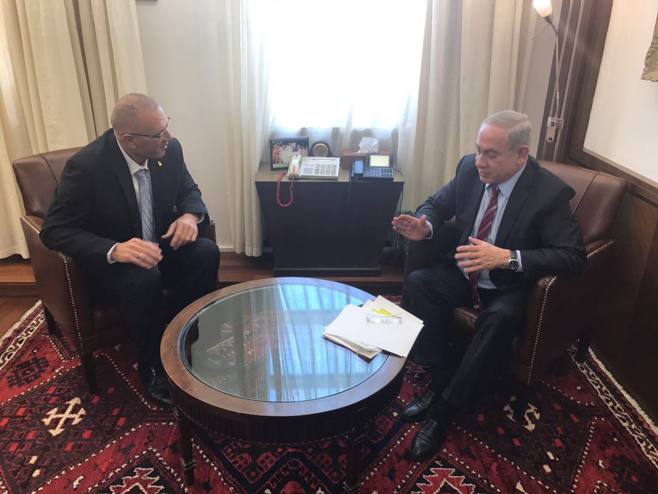 יוסי שלי עם ראש הממשלה בנימין נתניהו בפגישה טרם היציאה לשליחות